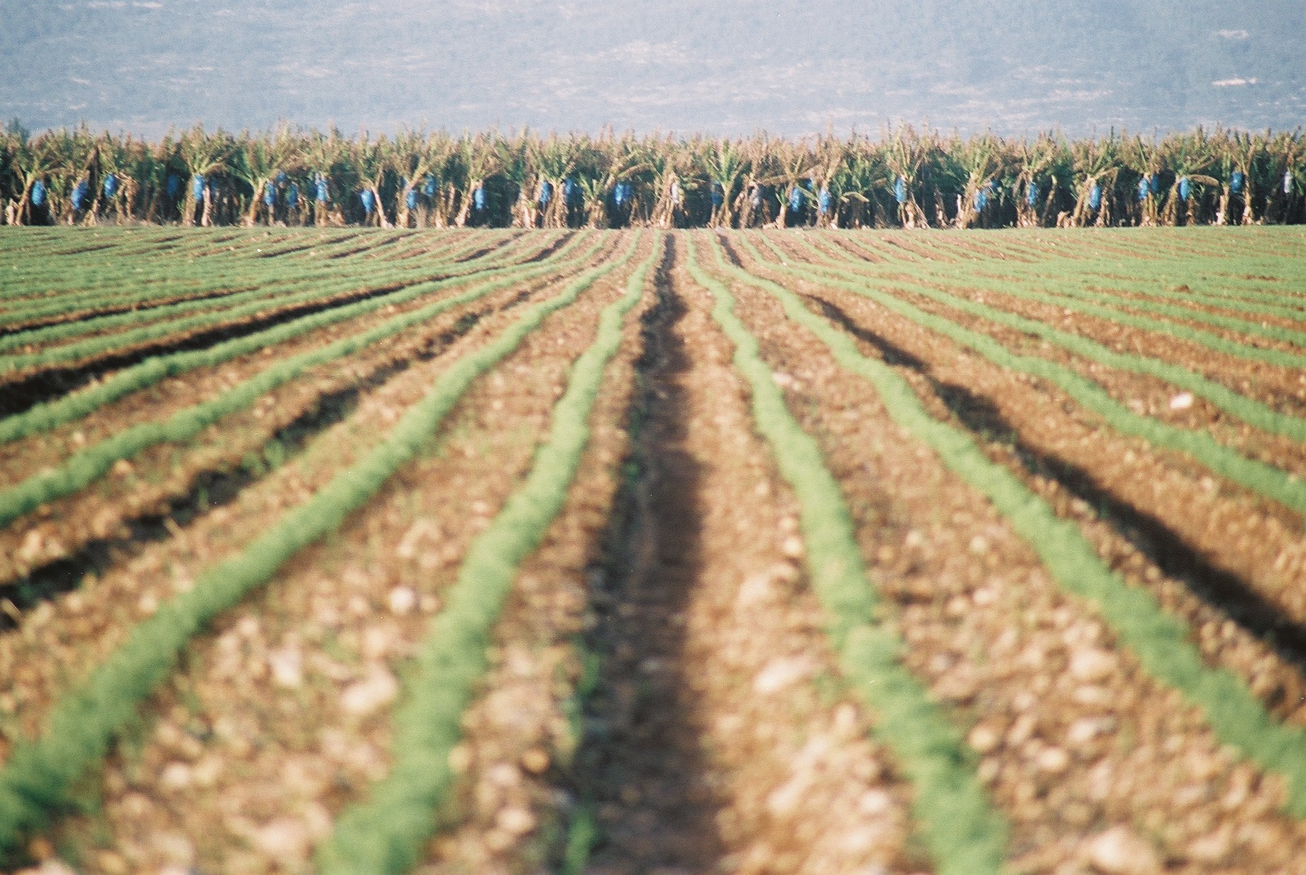 Geography of Israel